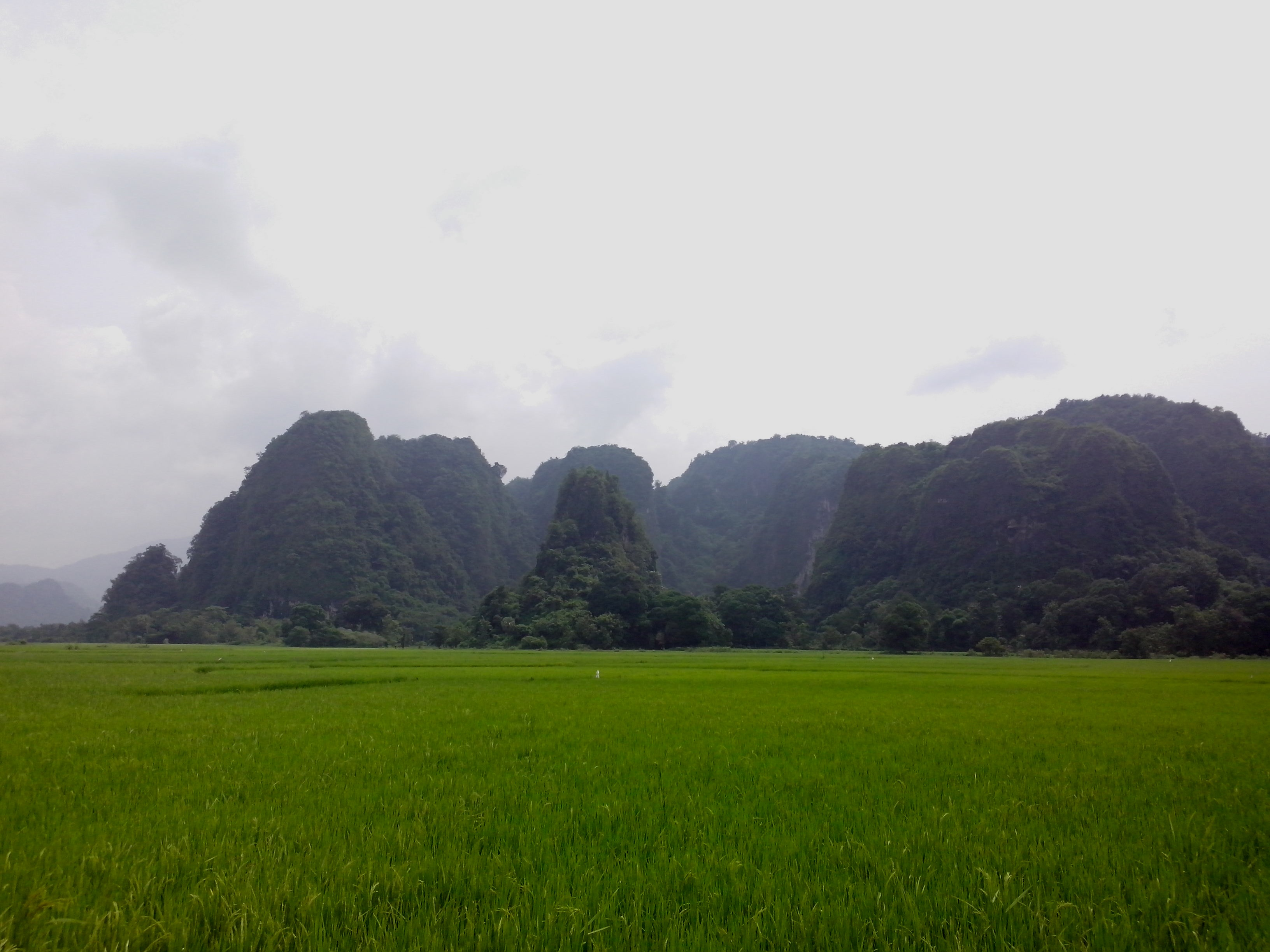 Karst Mountain in Maros as seen from the road to Leang-Leang Prehistoric Caves site.